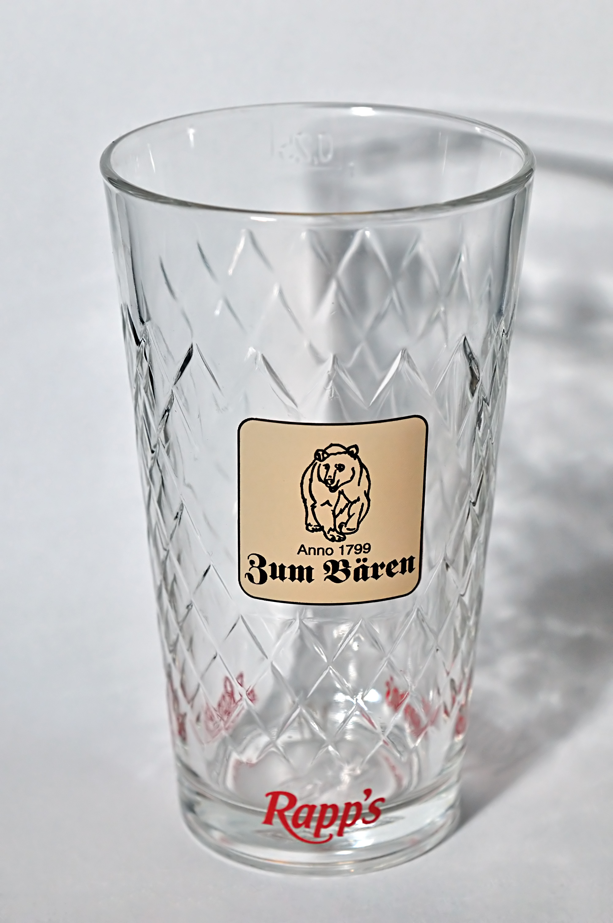 Traditional cider glass, called “Geripptes”, from the Gasthaus zum Bären (The Bear's Inn) at the Höchster Schloßplatz (Höchst Castle Square)